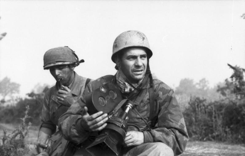 Italy, 1944- German combat cameraman with Arri 35 mm filmcamera